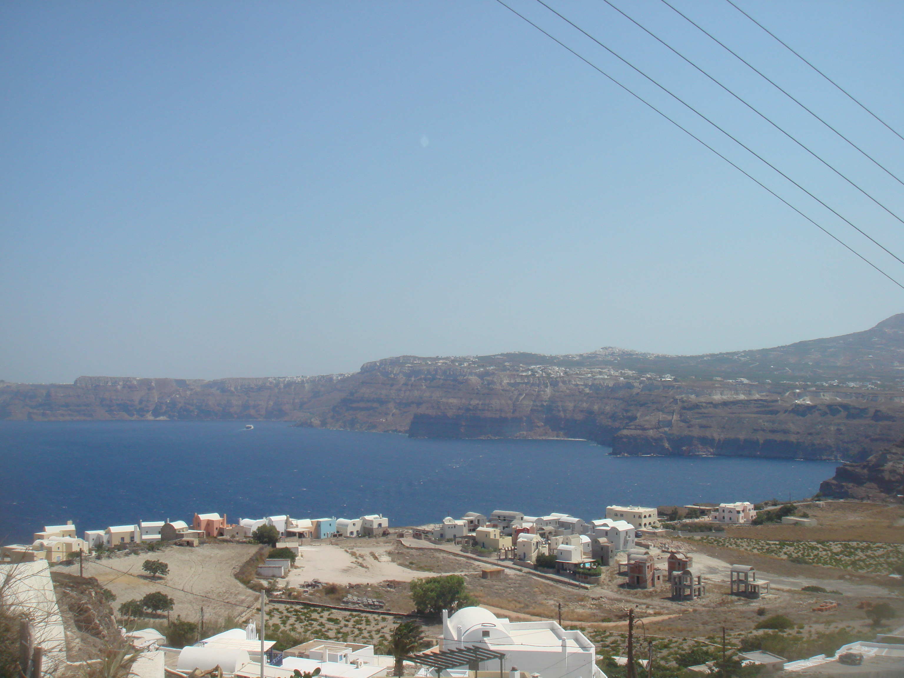 View of Akrotiri, Santorini.